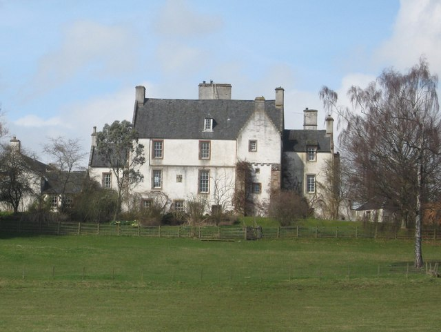 Lessudden House